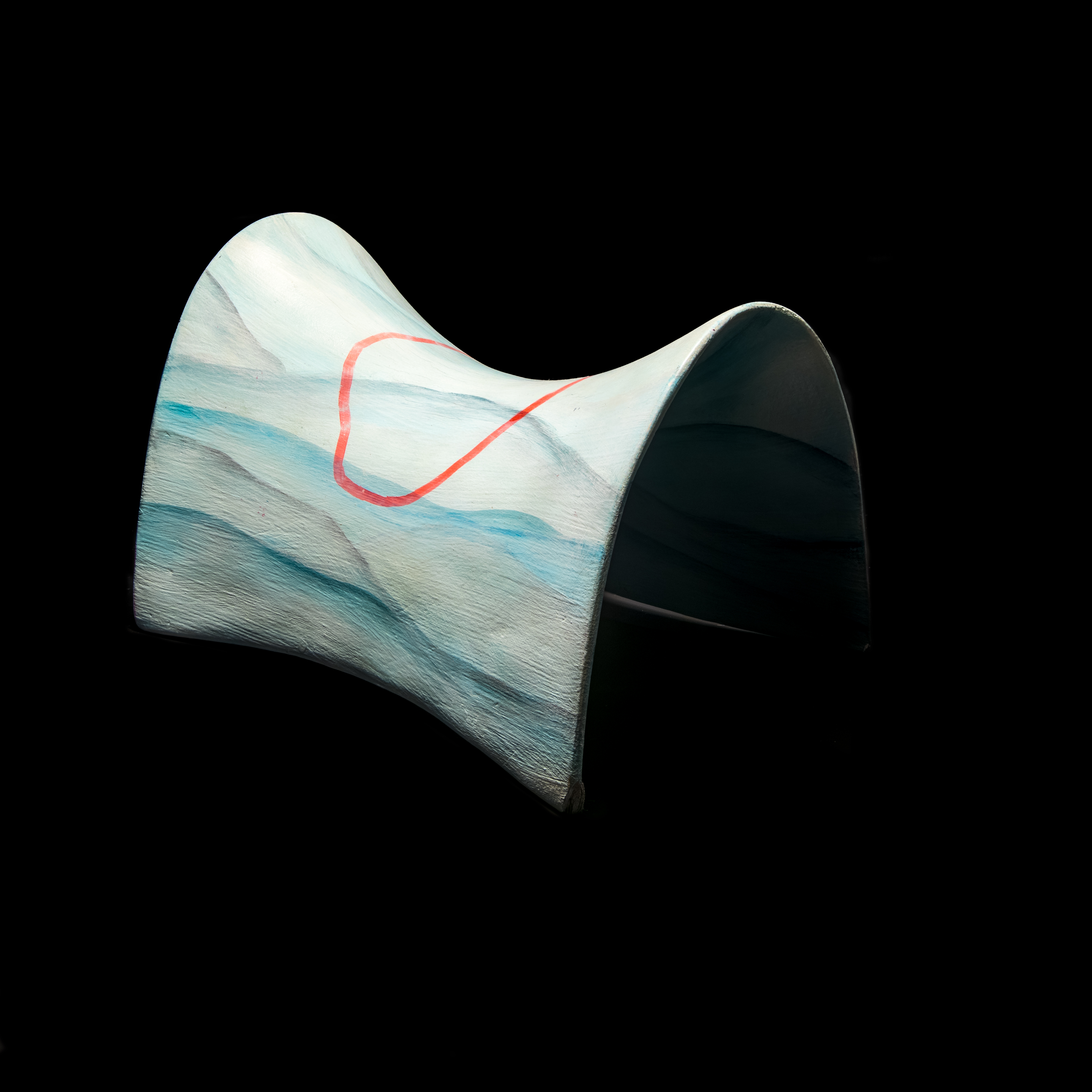 Surface illustrating a hyperbolic paraboloid, object is part of the Matemateca (IME/USP) collection.